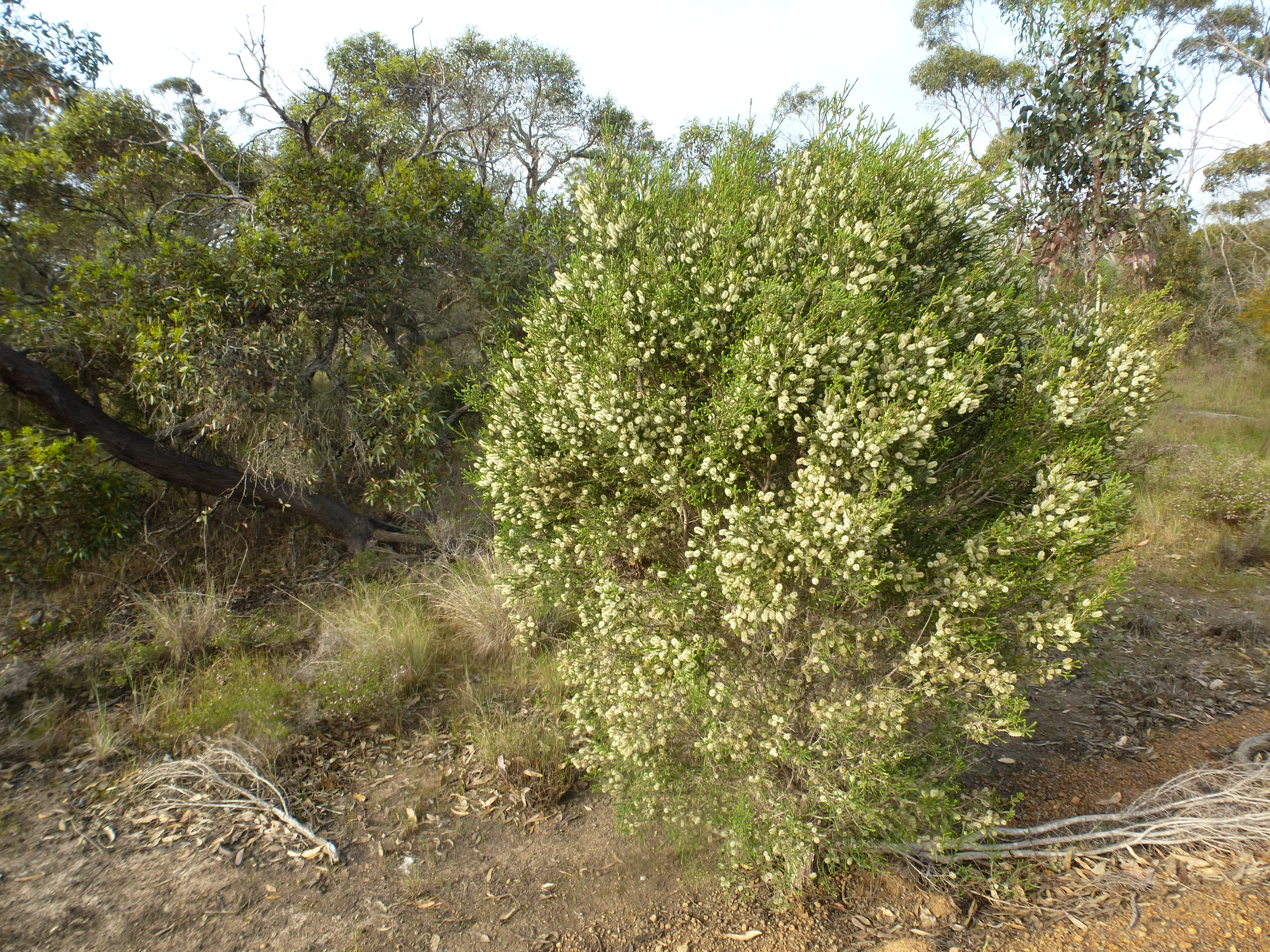 Melaleuca viminea growing on a roadside near Mount Barker